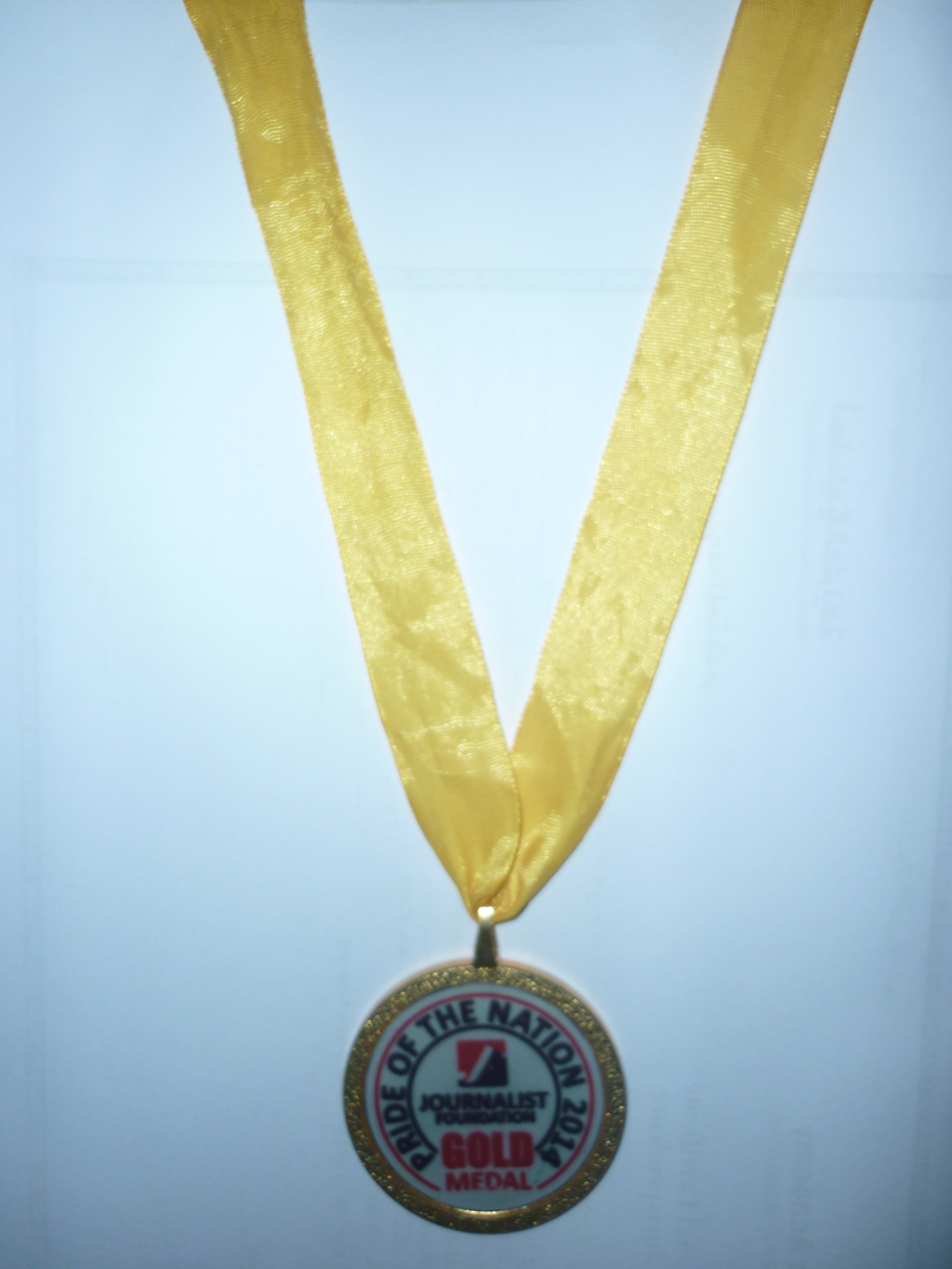 Journalist Foundation's Pride of the Nation Gold Medal